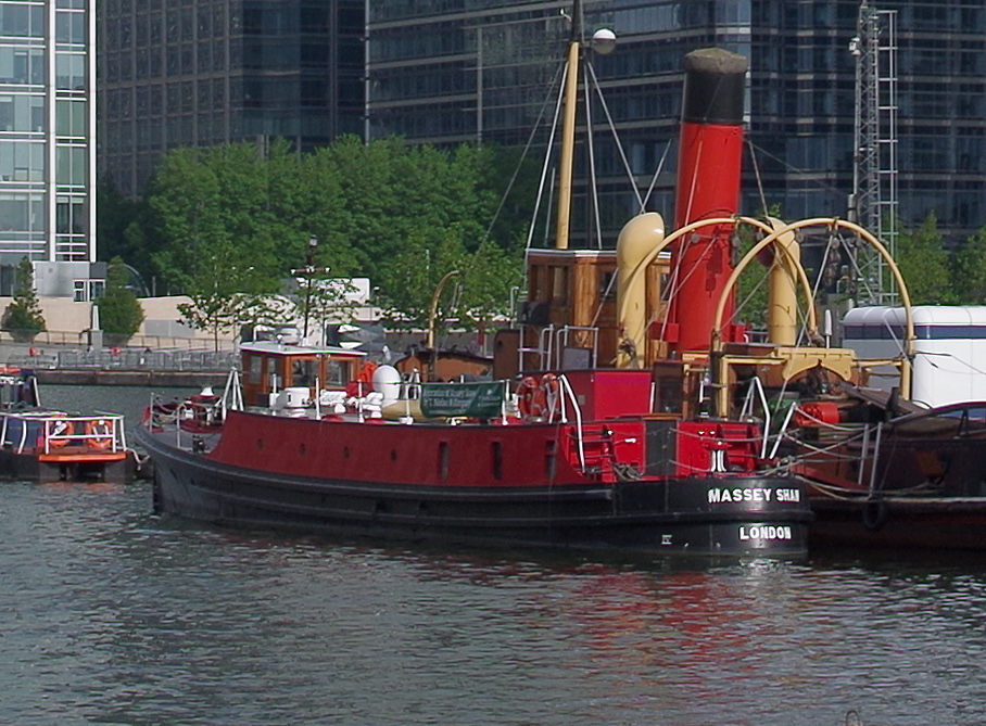 The skyscrapers of Canary Wharf on a sunny morning. In the foreground right are the Massey Shaw and Portwey.